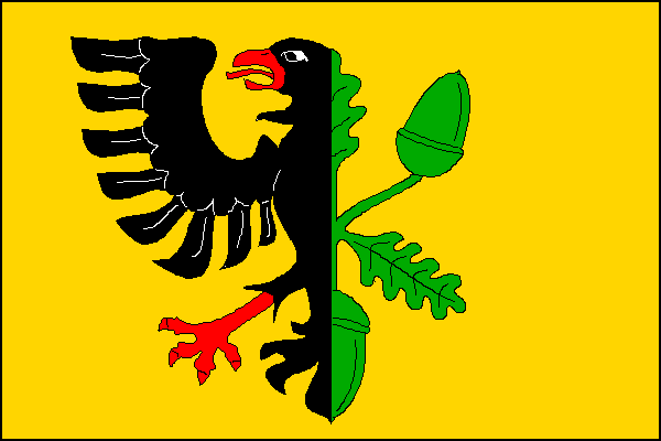 Municipal flag of Šilheřovice village, Opava District, Czech Republic.